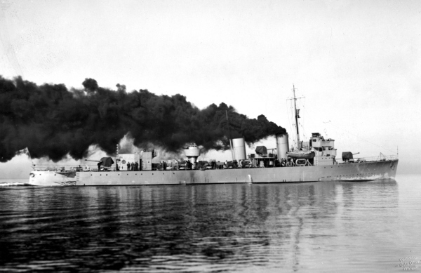 Swedish destroyer HMS Klas Horn during sea trials in 1932.